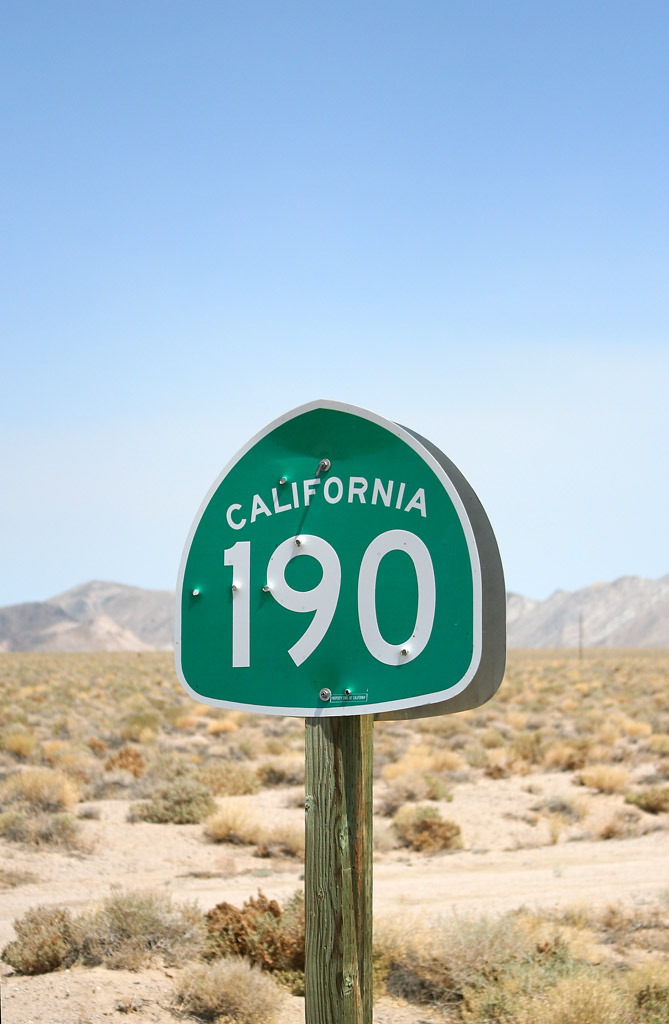 The road which leads into the Death Valley. The funny thing is I crashed my car on this road.